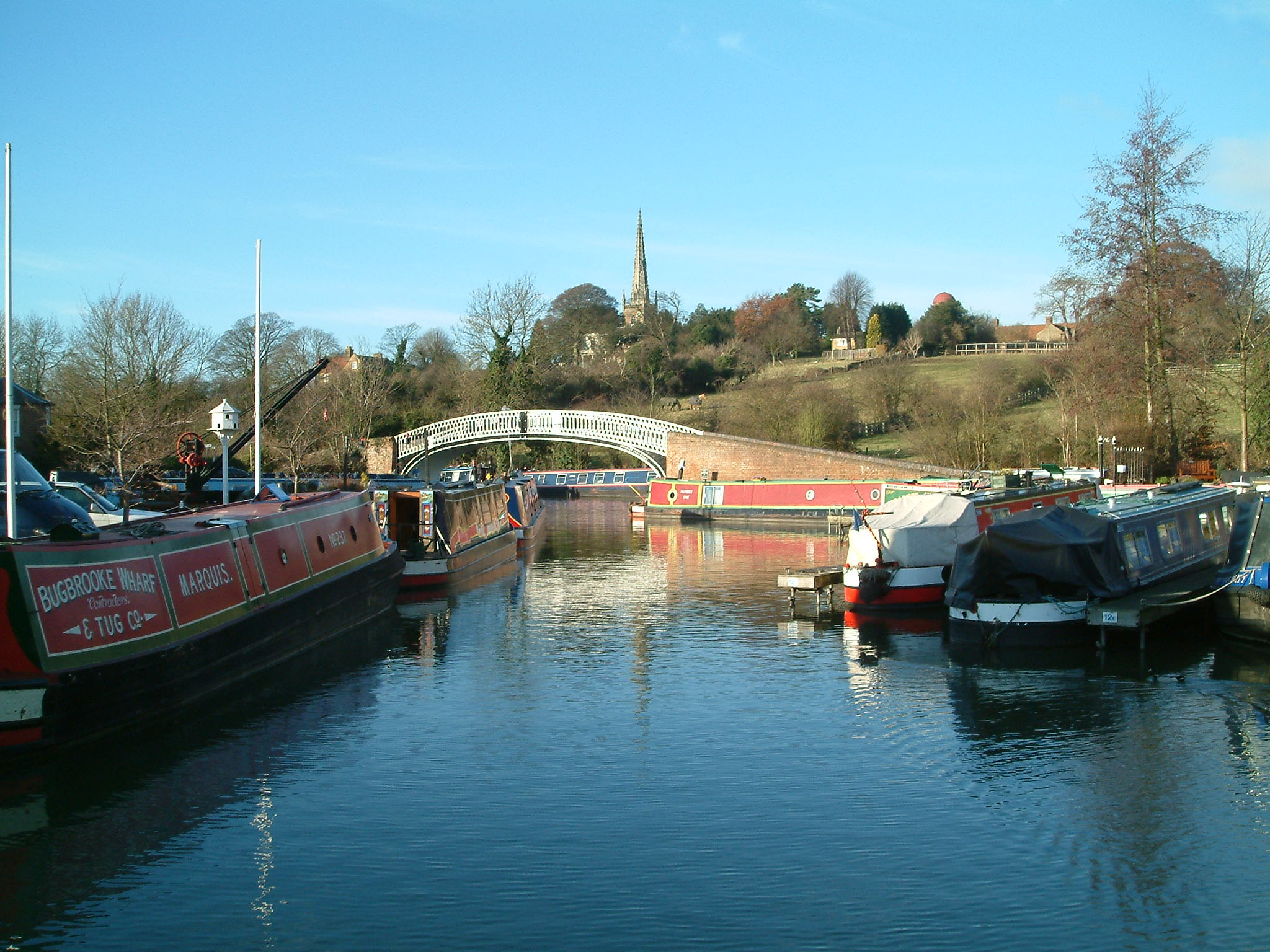 Canal narrowboats Bbraunston, UK